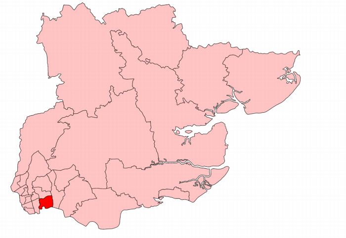 A map of Barking constituency within Essex, as it existed from 1945 to 1950.